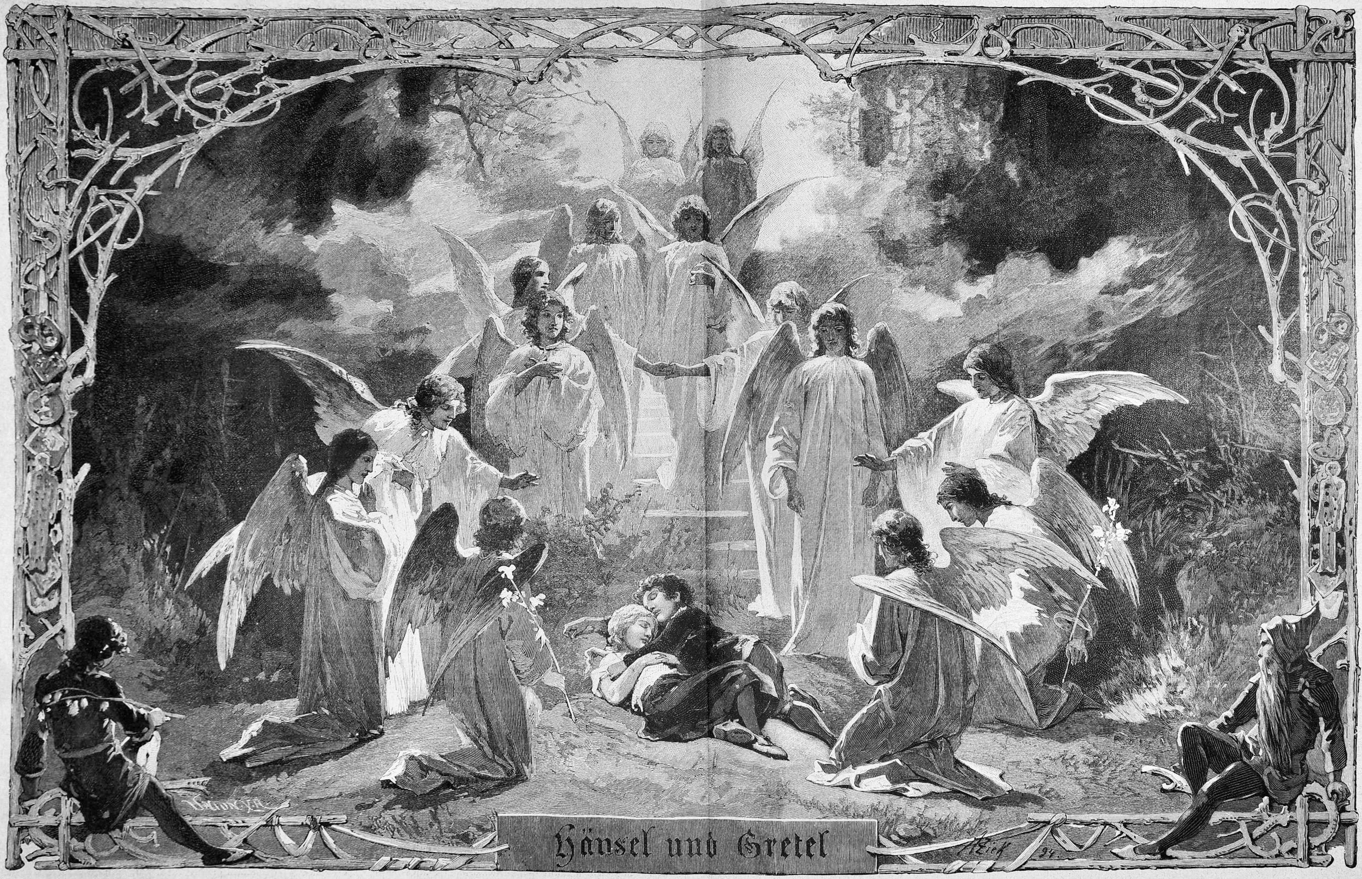 caption: "Hänsel und Gretel.Scene aus dem gleichnamigen Märchenspiel von Engelbert Humperdink.Nach einer Originalzeichnung von A. Zick."